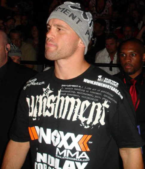 The author was contacted and agreed to release all images under the terms of the Creative Commons Attribution-ShareAlike 2.5 license. Permission is on file with the WMF.